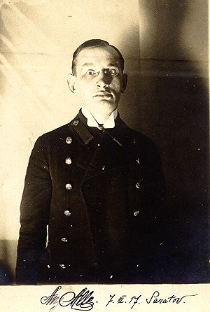 Portrait of Estonian writer August Alle (1890-1952).